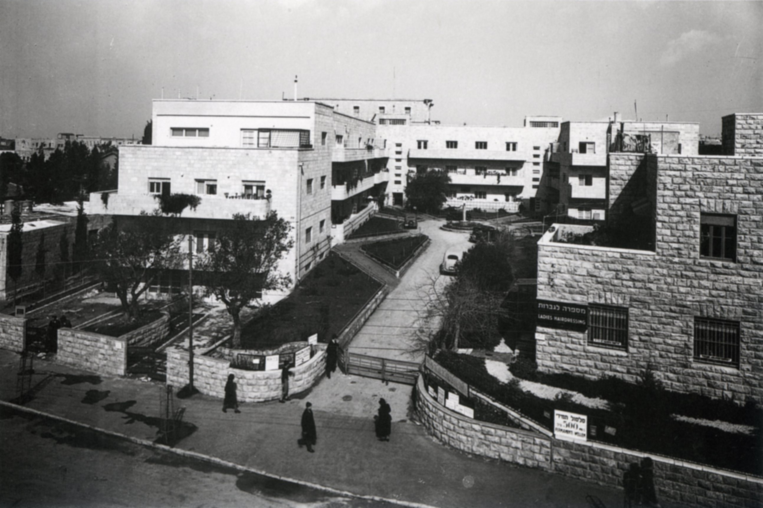 Photograph